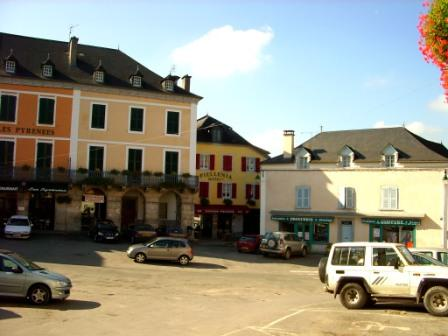 Atharratzeko plaza - The main square of Tardets-Sorhulus